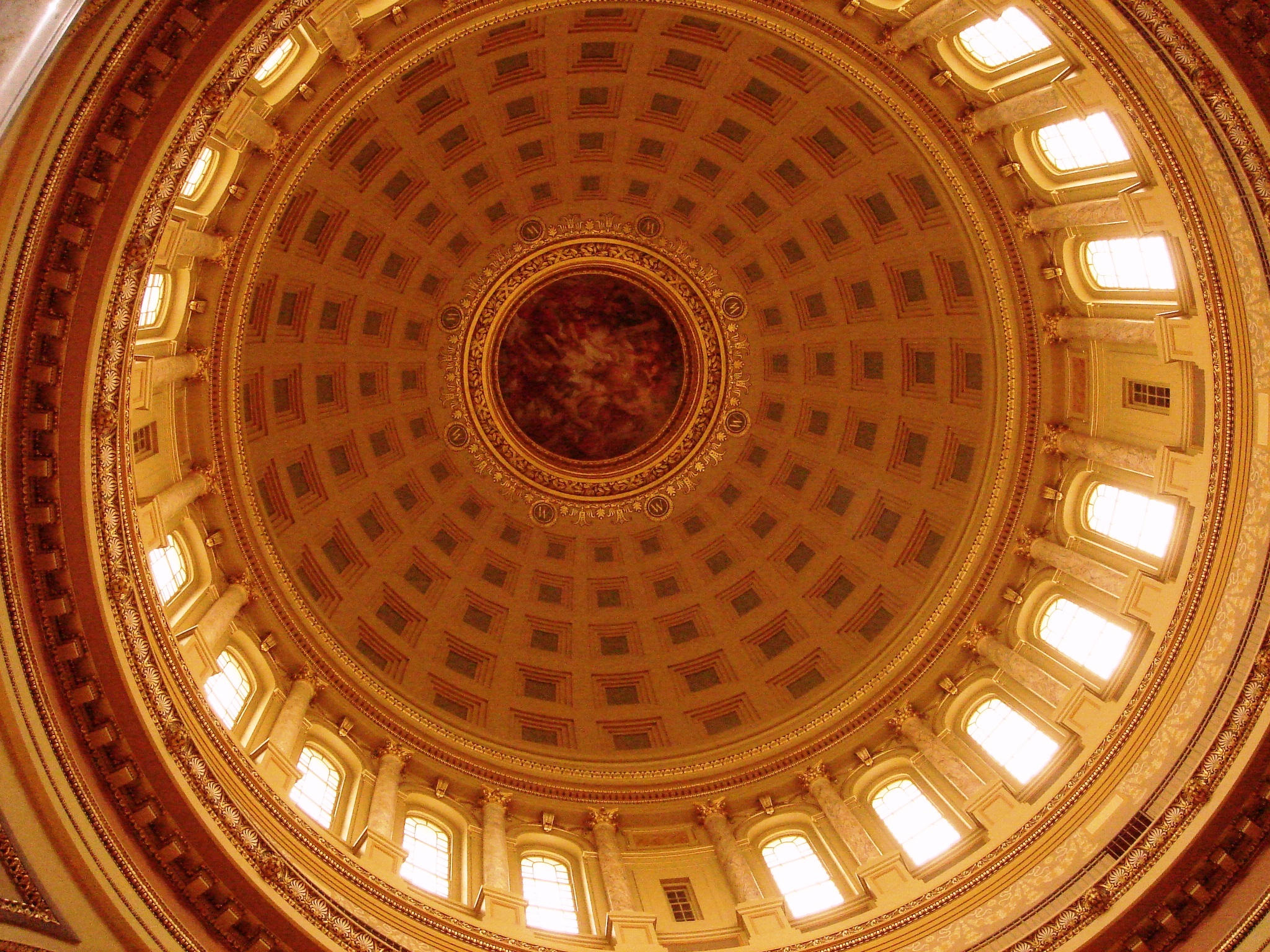 Wisconsin State Capitol, Dome Ceiling